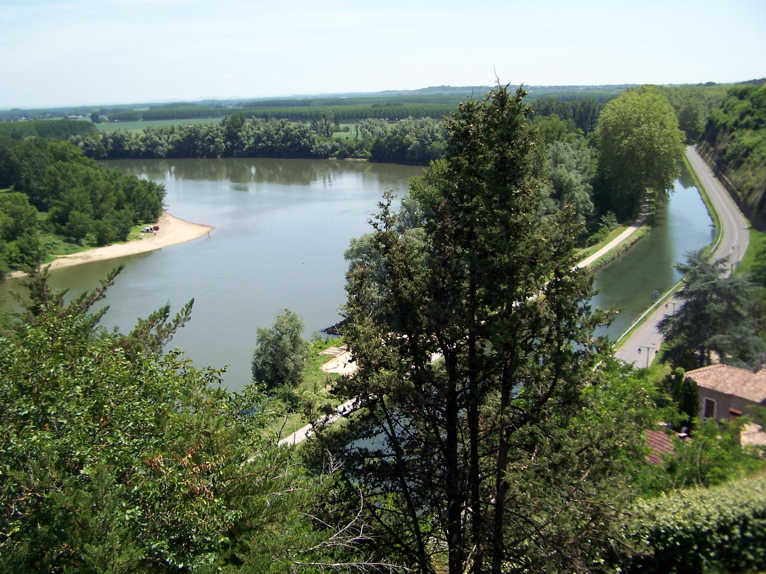 Garonne and canal in Meilhan-sur-Garonne (Lot-et-Garonne, France)